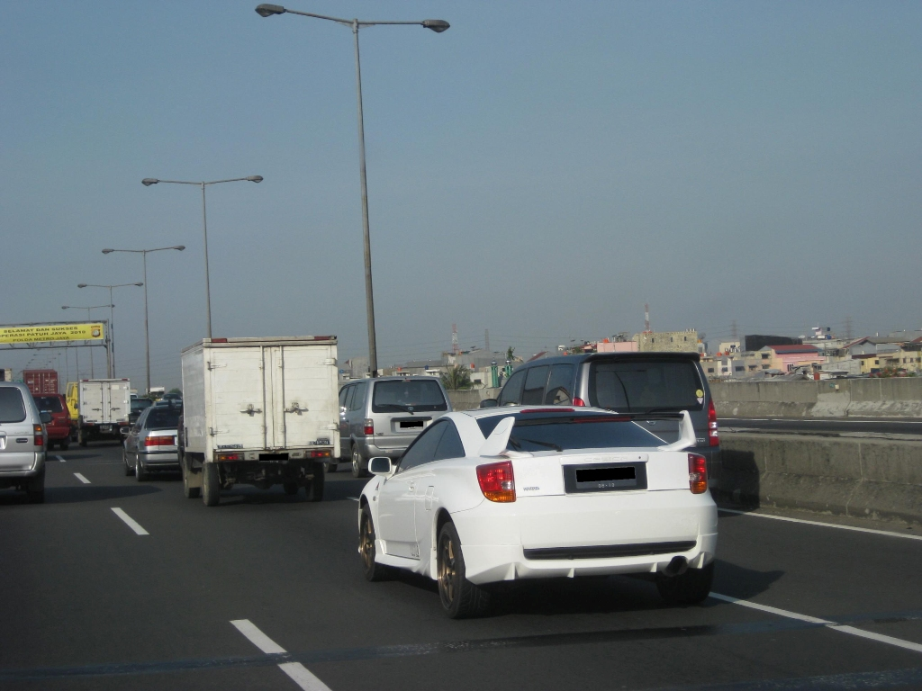 A Toyota Celica 1.8 VVTL-i SX (ZZT231) was driven eastbound on the Tanjung Priok Freeway in Jakarta.